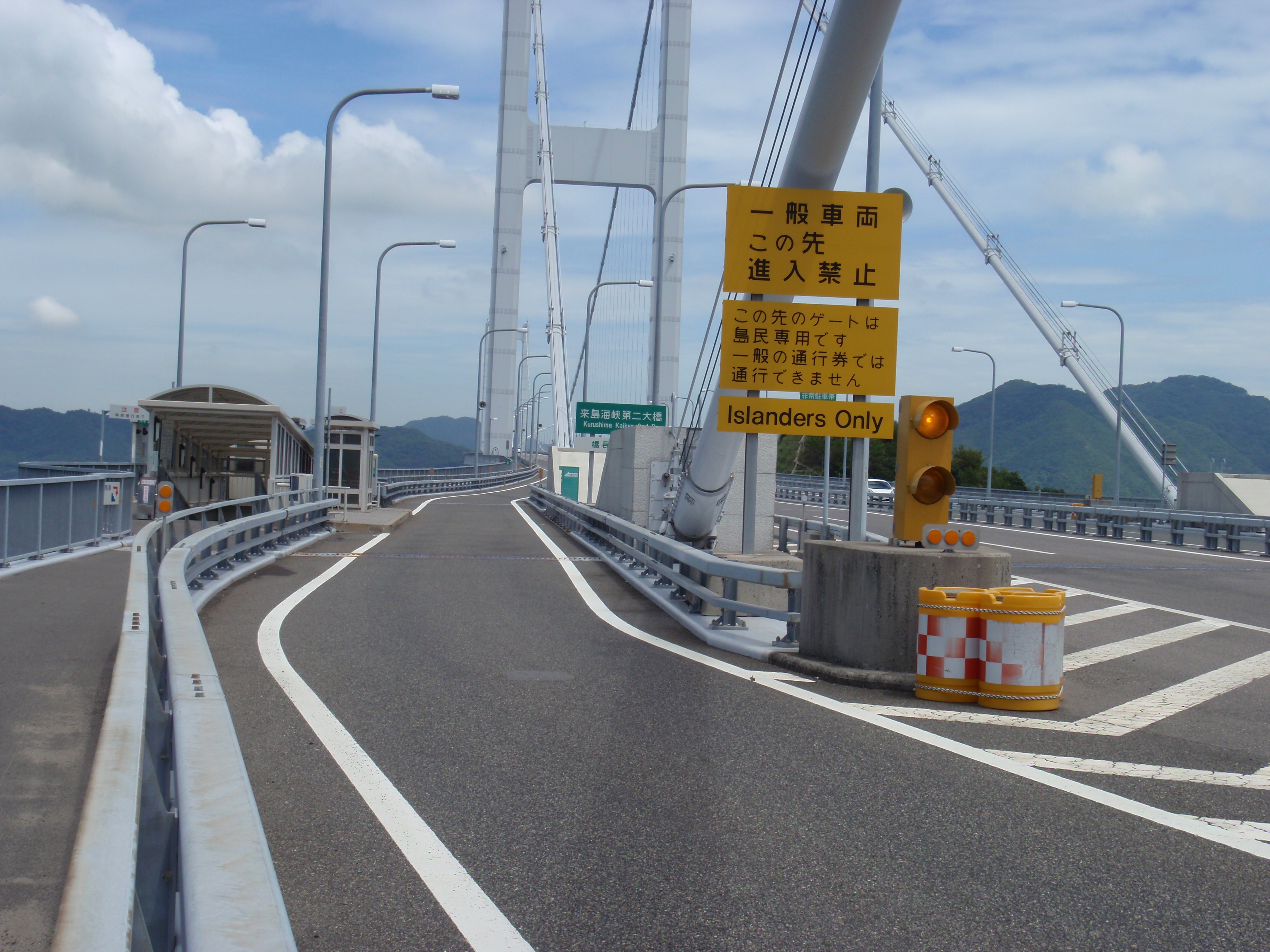 Warning sign ("Islanders only; No entry to ordinary vehicles") at Umashima Interchange